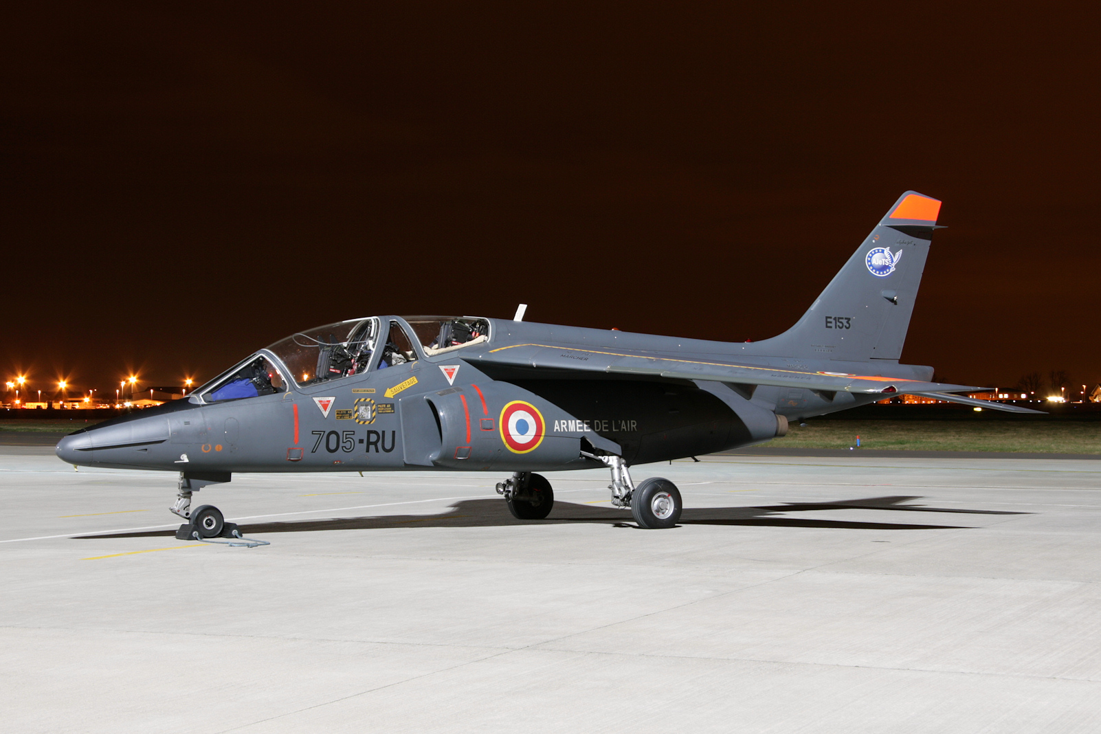 A Dassault/Dornier Alpha Jet E of the French Air Force at RAF Northolt, UK on 14 March 2013. It was participating in the Northolt Nightshoot XIV event. The aircraft's serial number is E153, and it carries the code 705-RU.